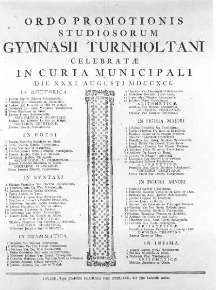 Ordo Promotionis Gymnasii Turnholtani